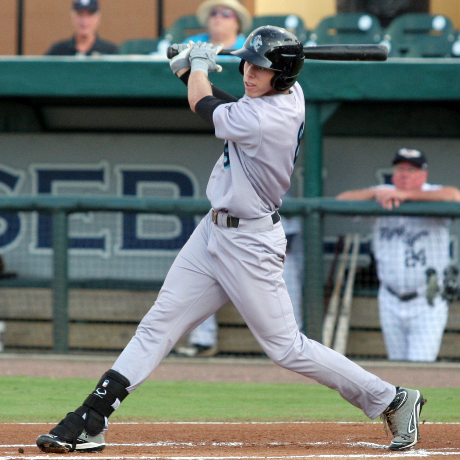 Christian Yelich